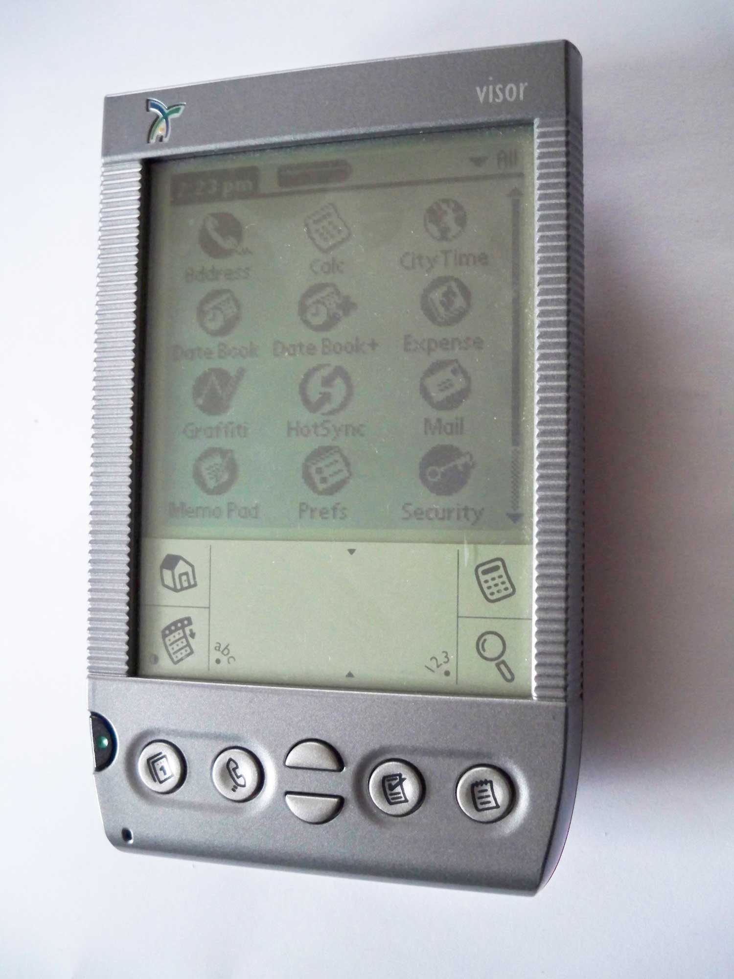 Personal Digital Assistant Handspring Visor Platinum